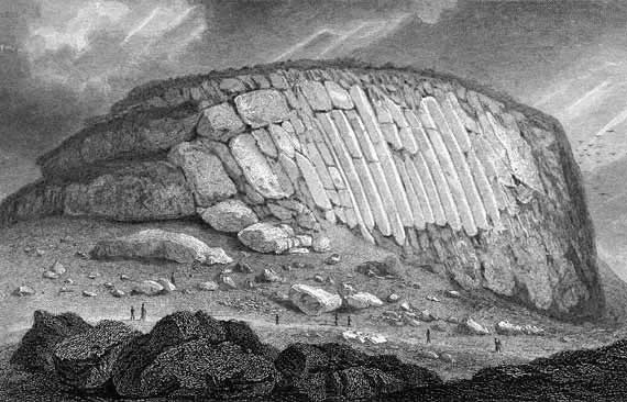 Samson's Ribs - engraving by Thomas H. Shepherd, 1829